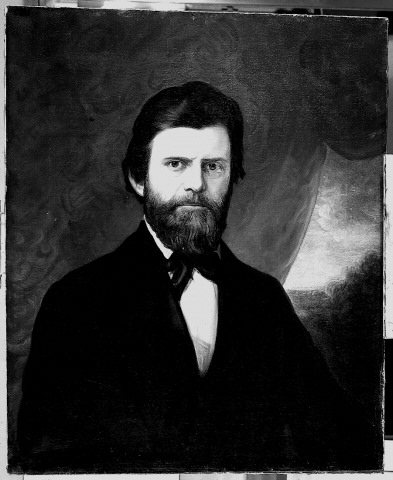 Nelson Dewey (1813-1889)